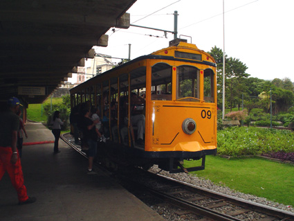 A tram ("bonde" in Brazilian Portuguese) at the city centre terminus of the Santa Teresa Tramway, in Rio de Janeiro.